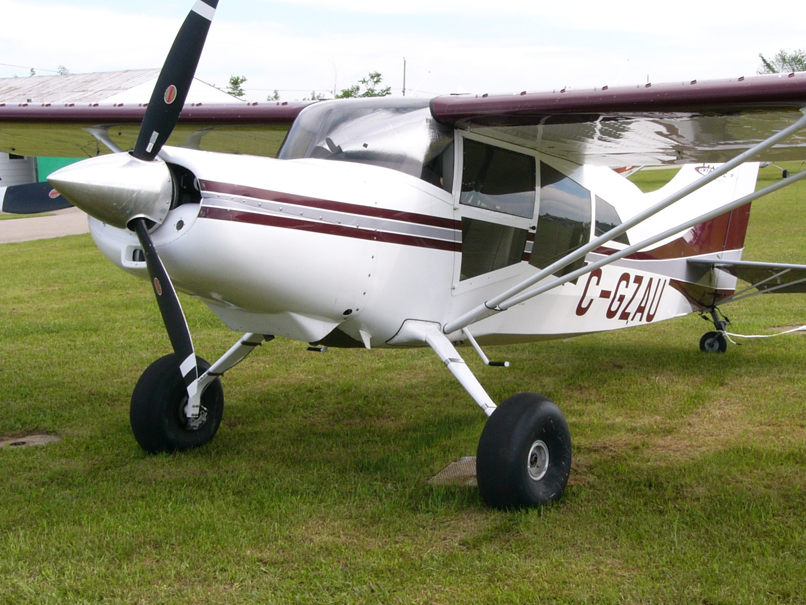 Maule M-7-260C Orion at the Smiths Falls Ontario Fly-in